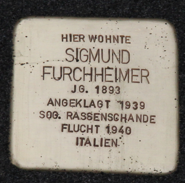 Stolpertein placed in Bad Mergentheim